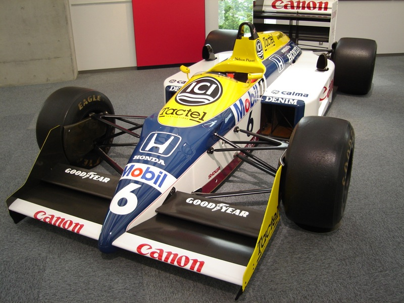 Williams FW11B (1987 Australian GP ver., #6 Nelson Piquet)